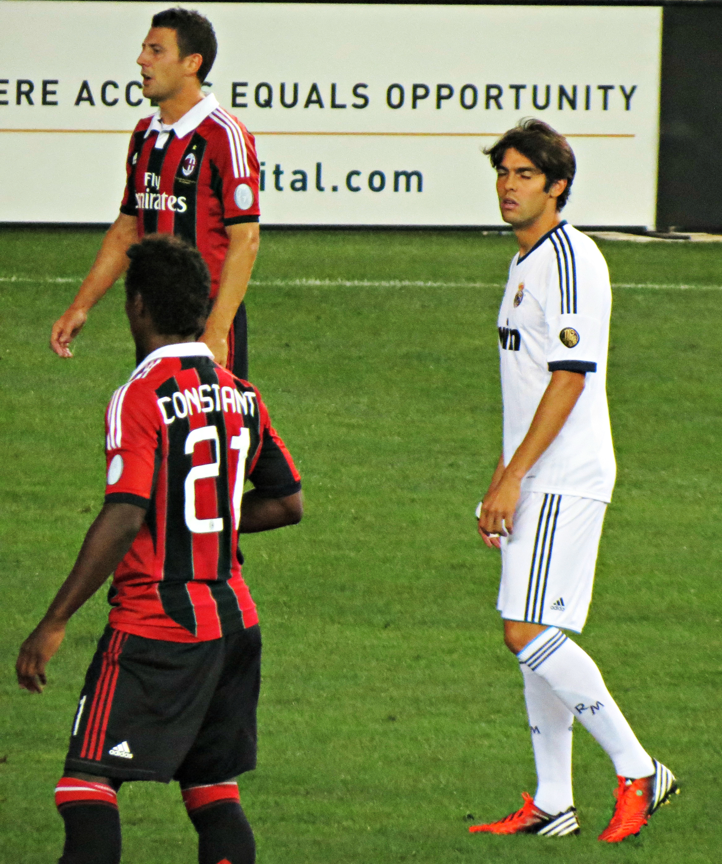 Kaka, playing for Real Madrid vs AC Milan. Also in photo: Daniele Bonera and Kevin Constant.